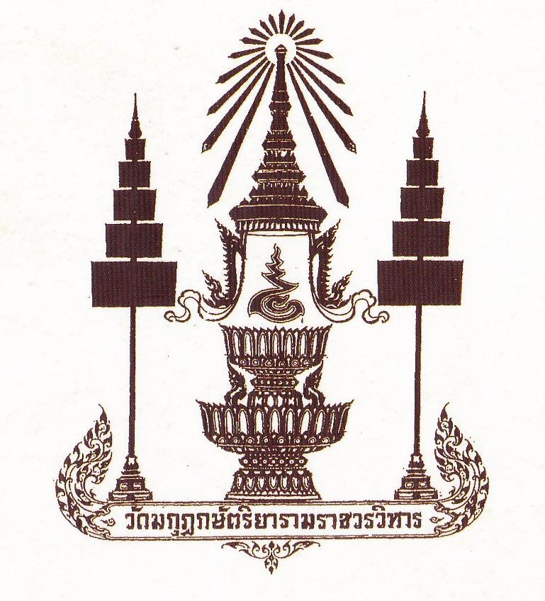 Wat Makutkasatriyaram, Phra Nakhon district, Bangkok, Thailand